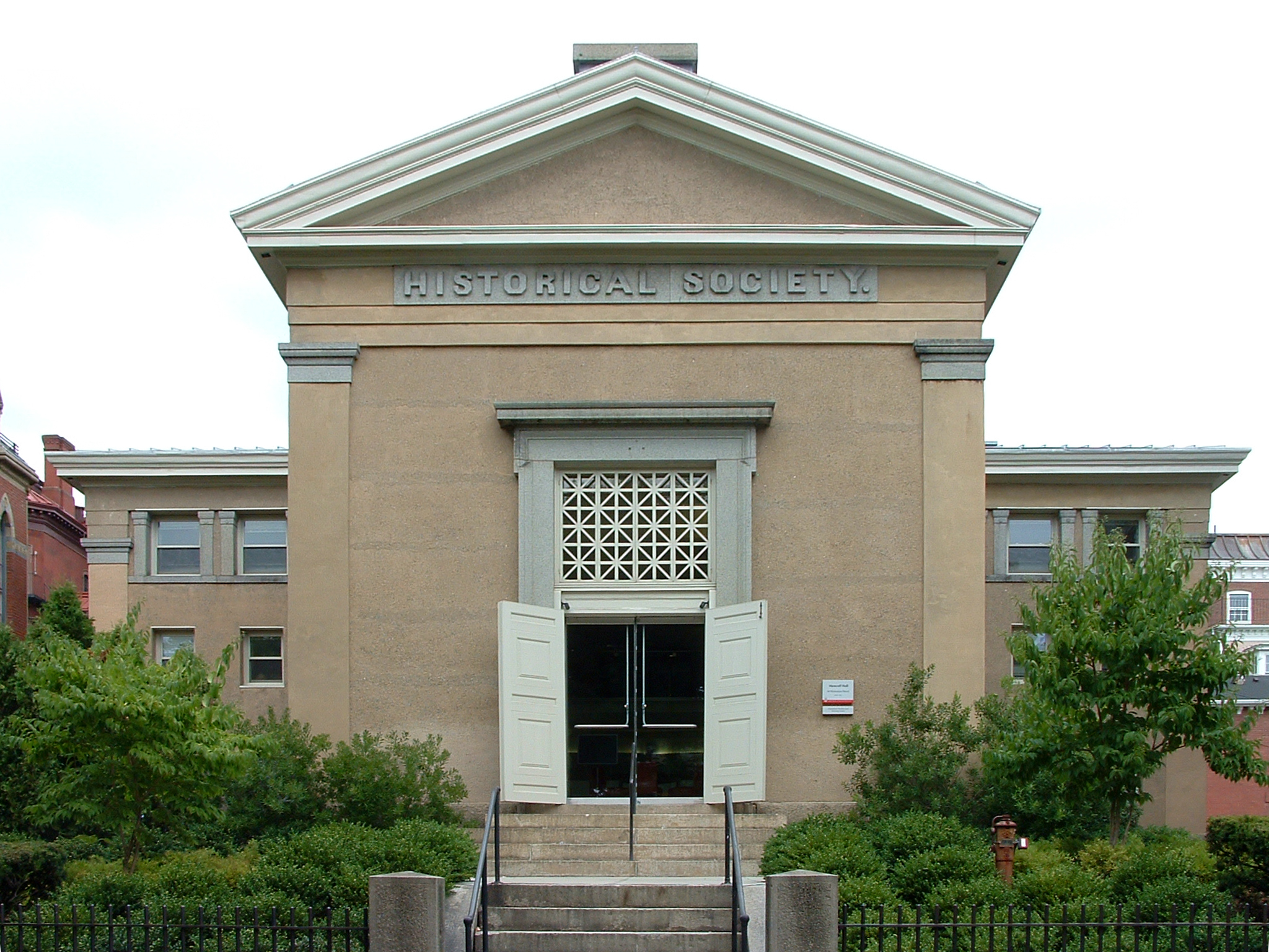 Brown University - Mencoff Hall